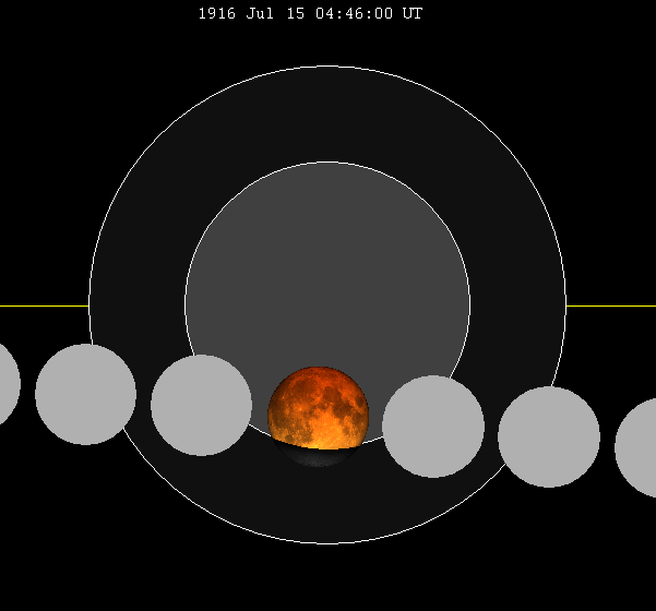 =lunar eclipse chart of moon's path through the earth's shadow. thumb